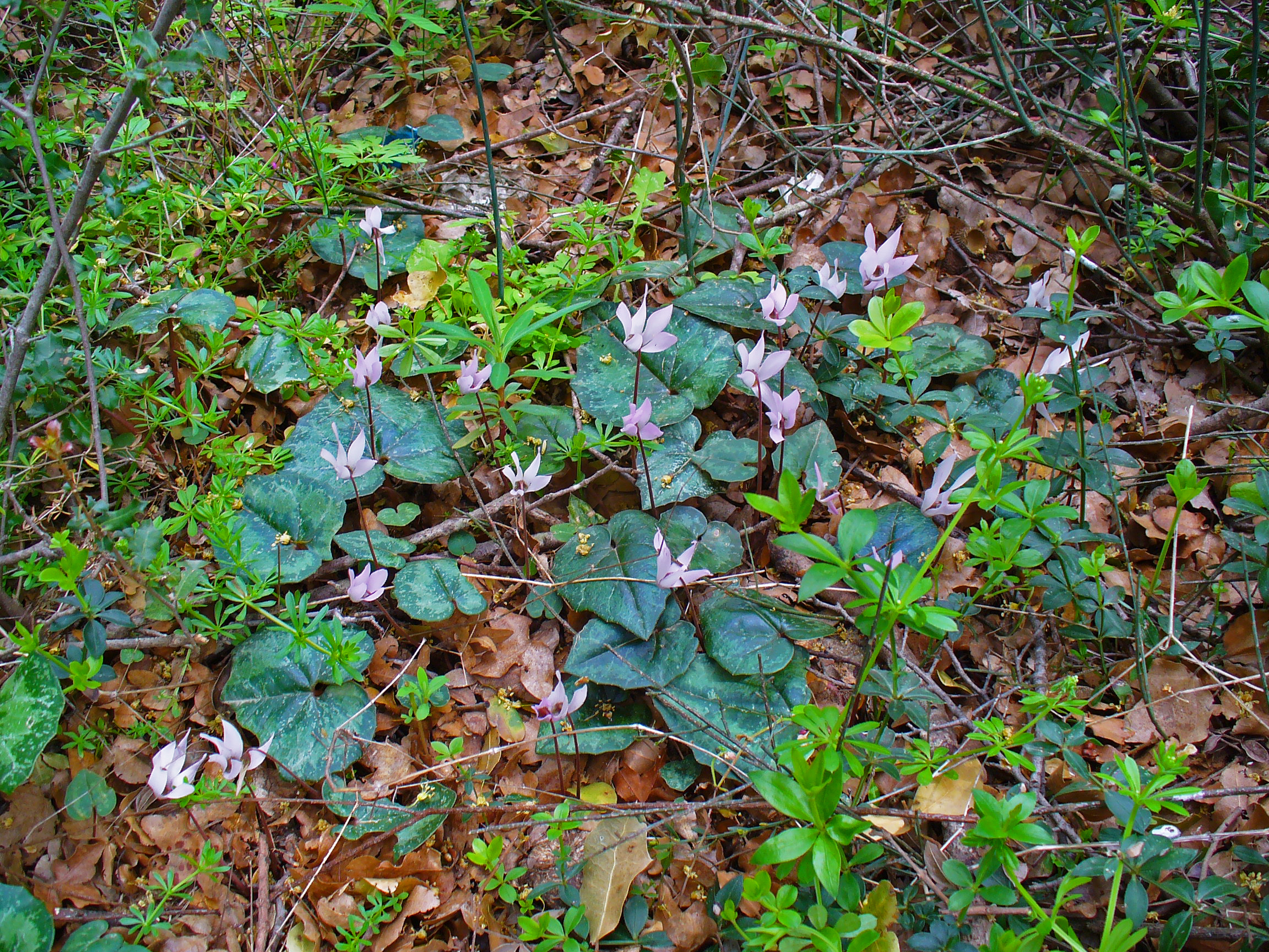 Cyclamen creticum, Myrsinaceae, Cretan Cyclamen, plant stand near Dikteo Andro, Central Crete, Greece.